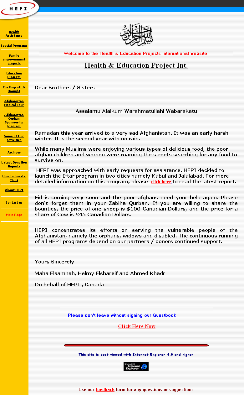 Ahmed Said Khadr's charitable website